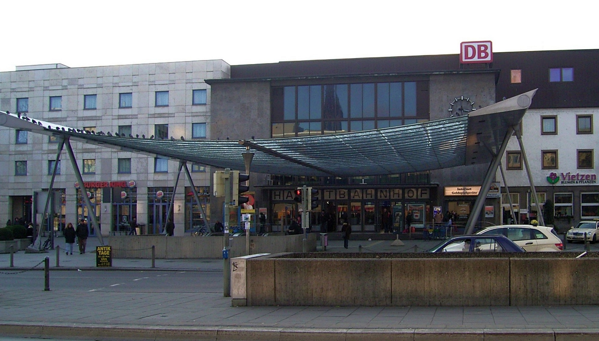 Ulm (Germany), station building